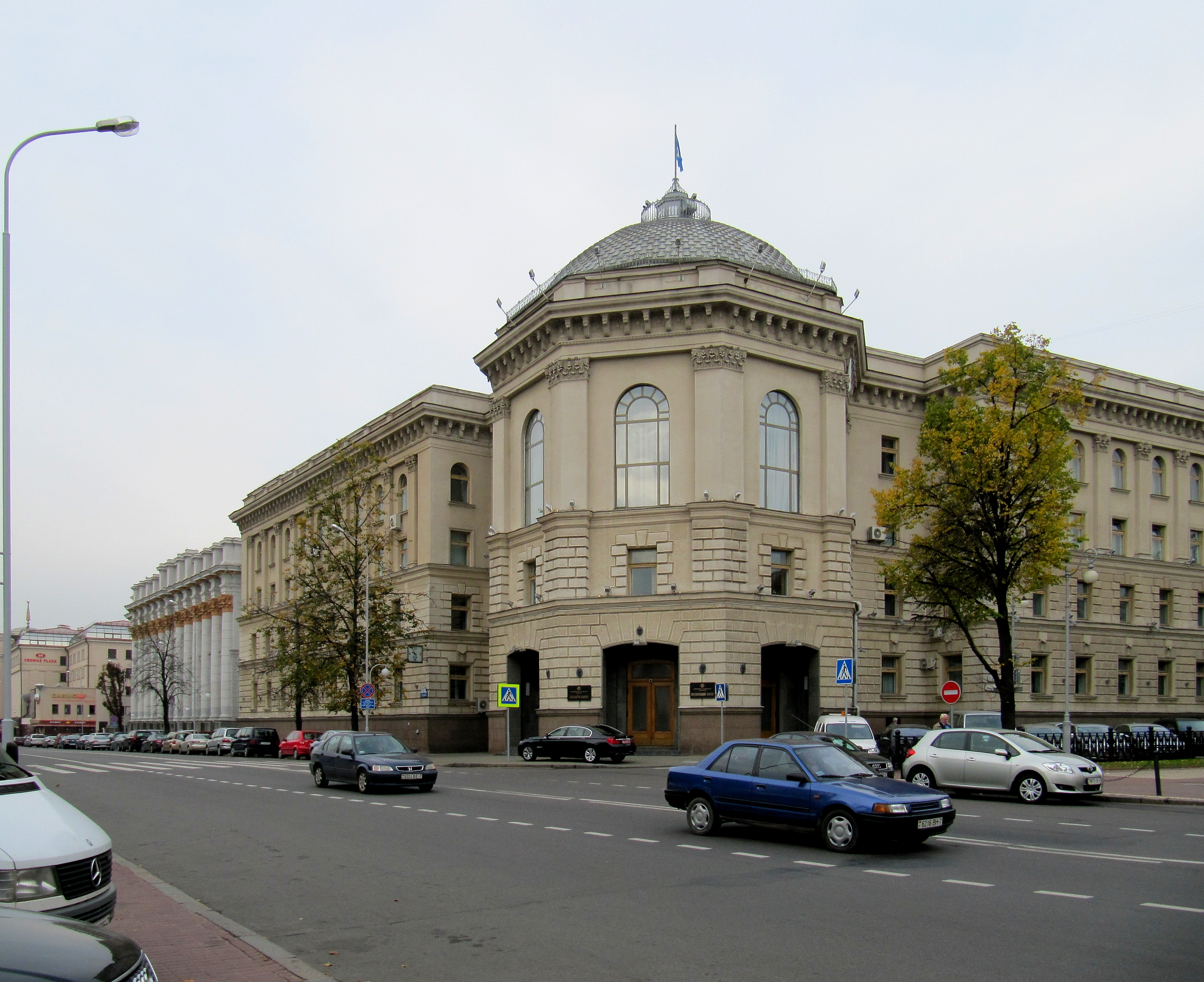 Minsk view of CIS executive committee building